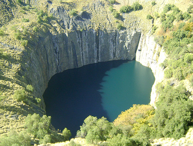 Realidade